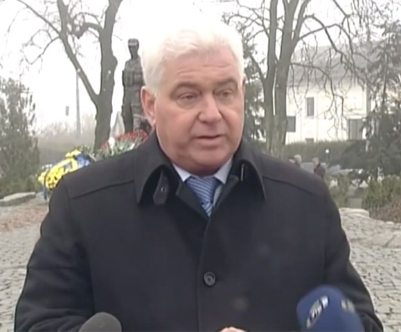 Anatoliy Prysiazhniuk, Ukrainian politician, head of Kyiv Oblast State Administration